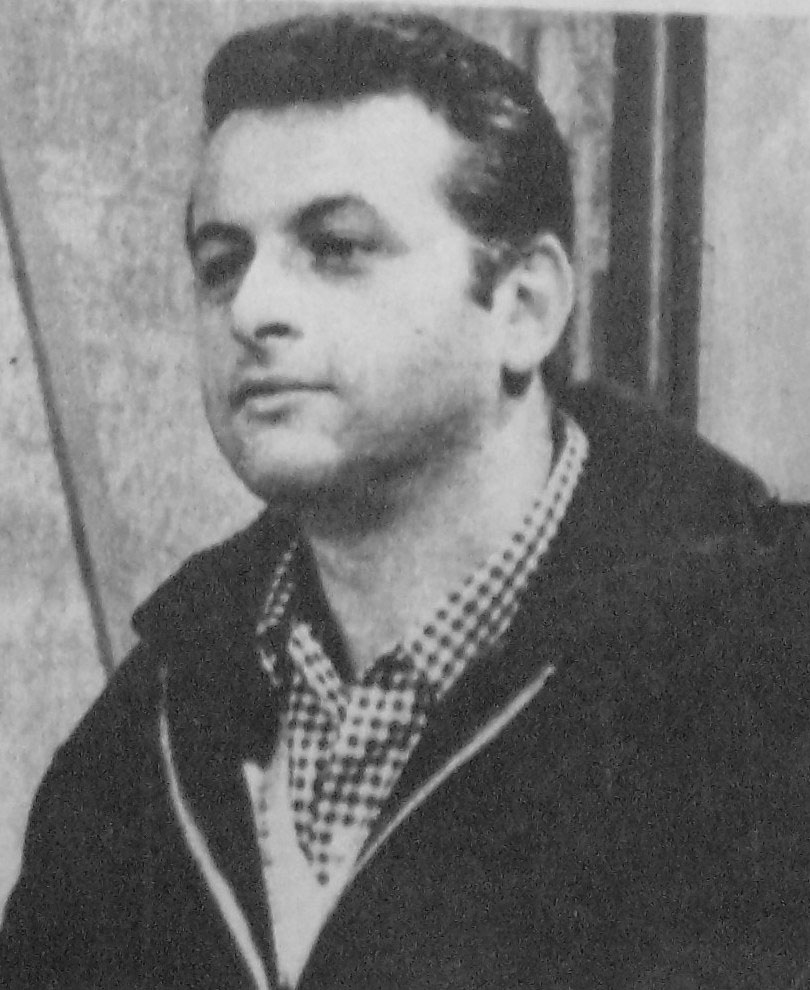 Argentine film director and writer Gerardo Sofovich.